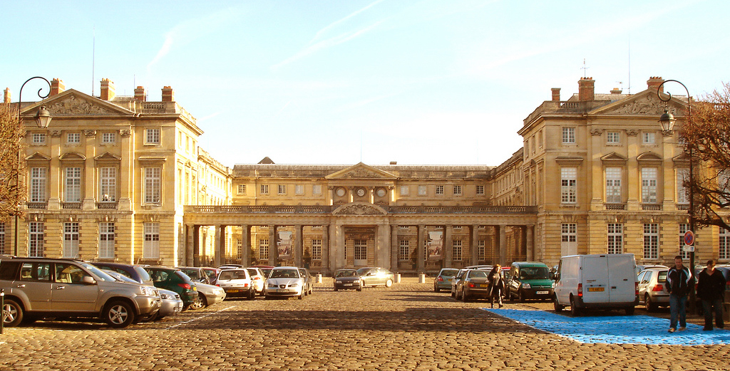 The château de Compiègne, south-western aspect